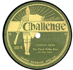 A record of the Clinch Valley Boys' Forked Dear, published by Challenge Records